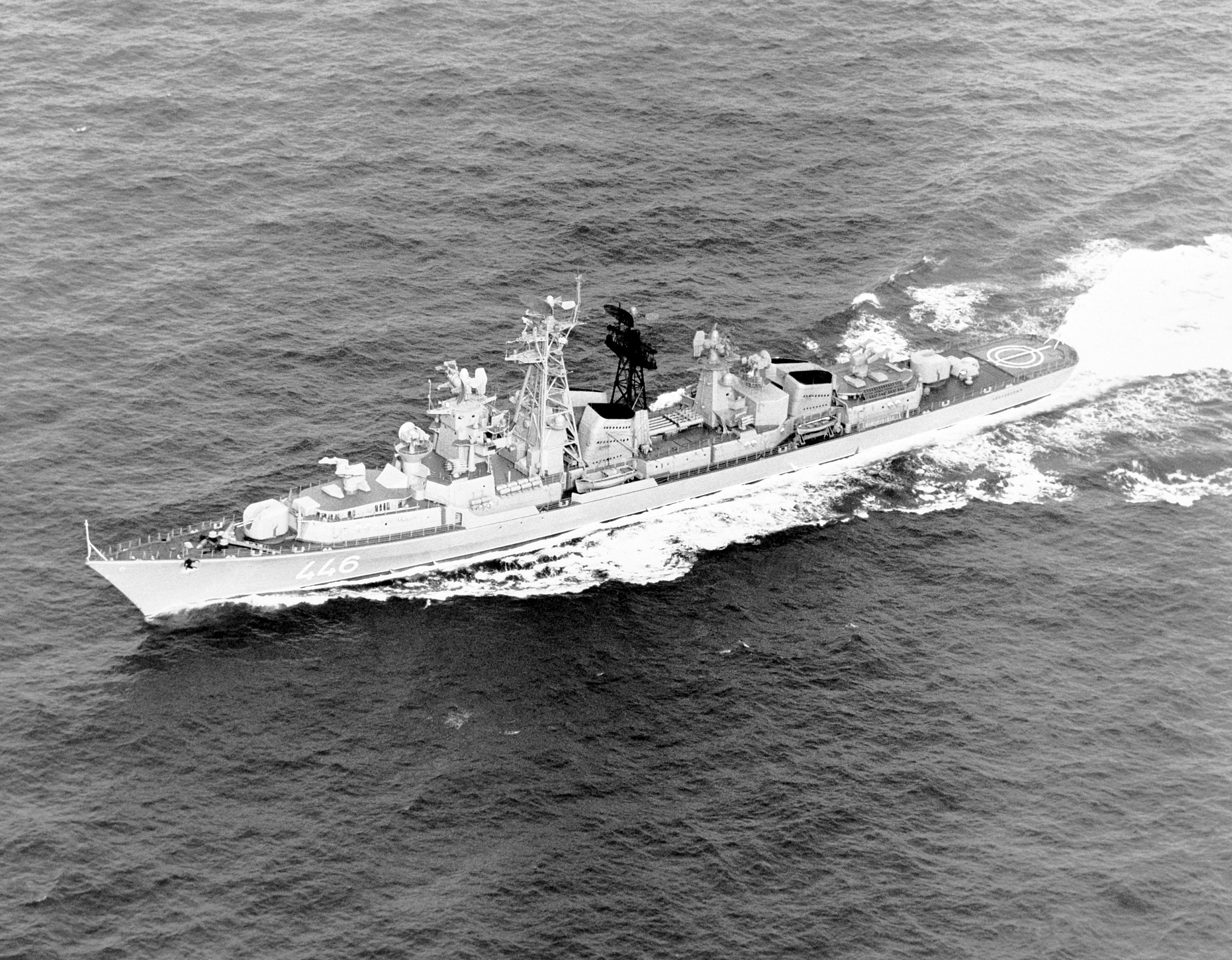 An aerial port bow view of the Soviet Kashin class guided missile cruiser OBRAZTSOVY underway.